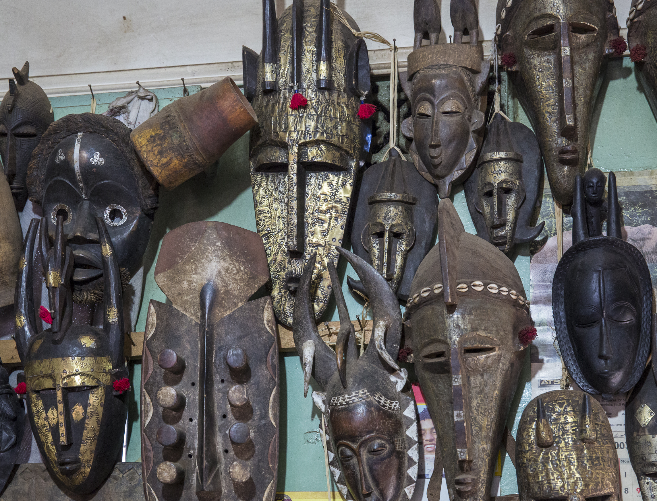 African masks in shops and markets, Nairobi